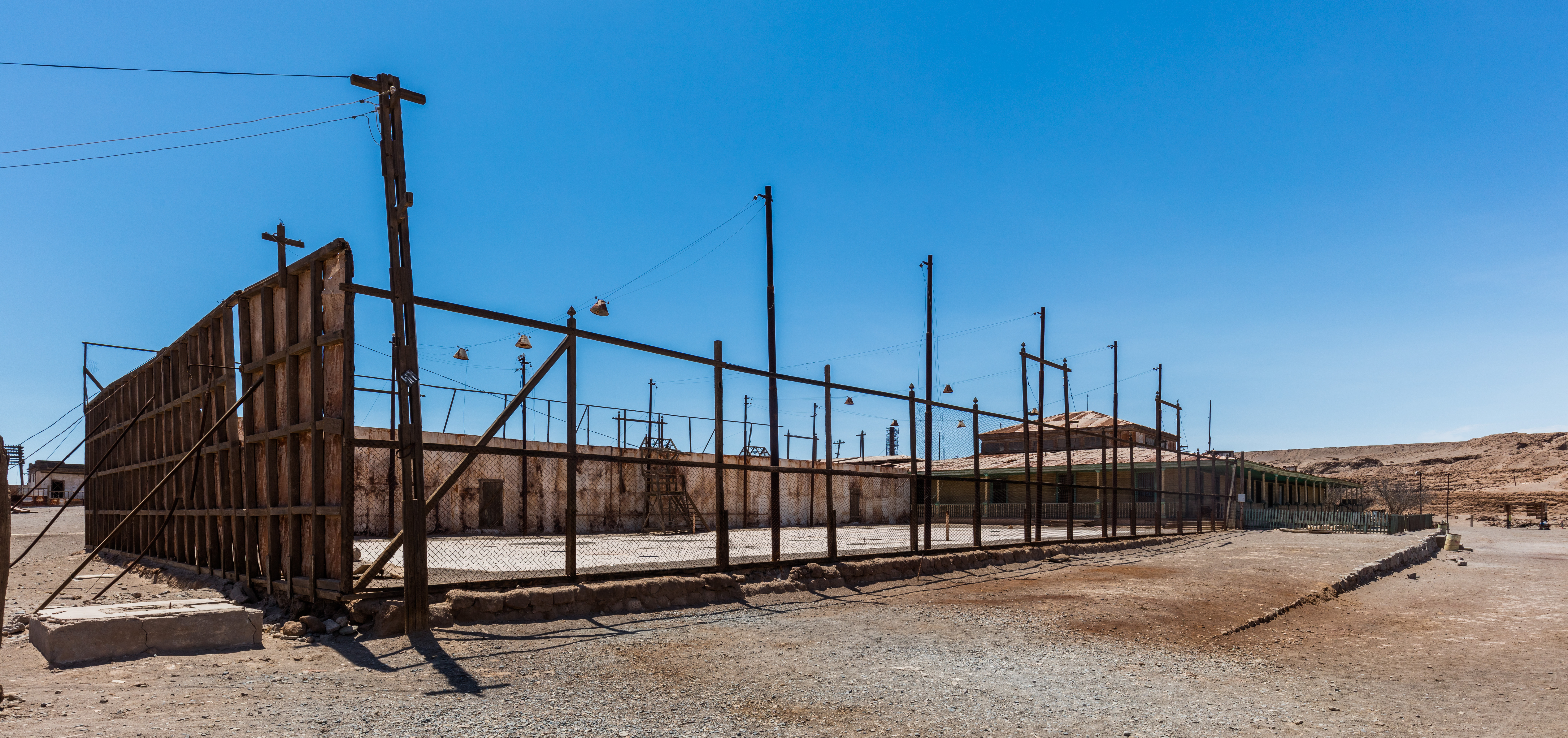 Humberstone and Santa Laura Saltpeter Office, Chile